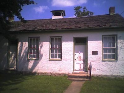 Front of the Elizabeth Harvey Free Negro School, located along North Street in Harveysburg, Ohio, United States. Built in 1831 and later converted into a house, today it is a museum and listed on the National Register of Historic Places.